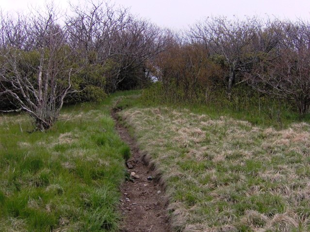 Appalachian Trail approaching the summit of Thunderhead Mountain (el. 5,527 feet/1,684 meters) in the Great Smoky Mountains.